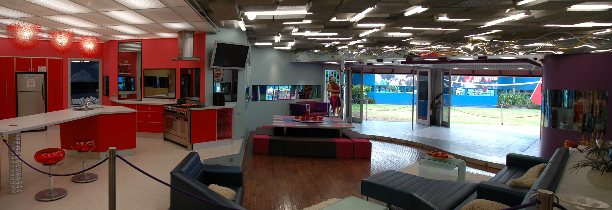 Taken 27 November 2005 at the house in Dreamworld